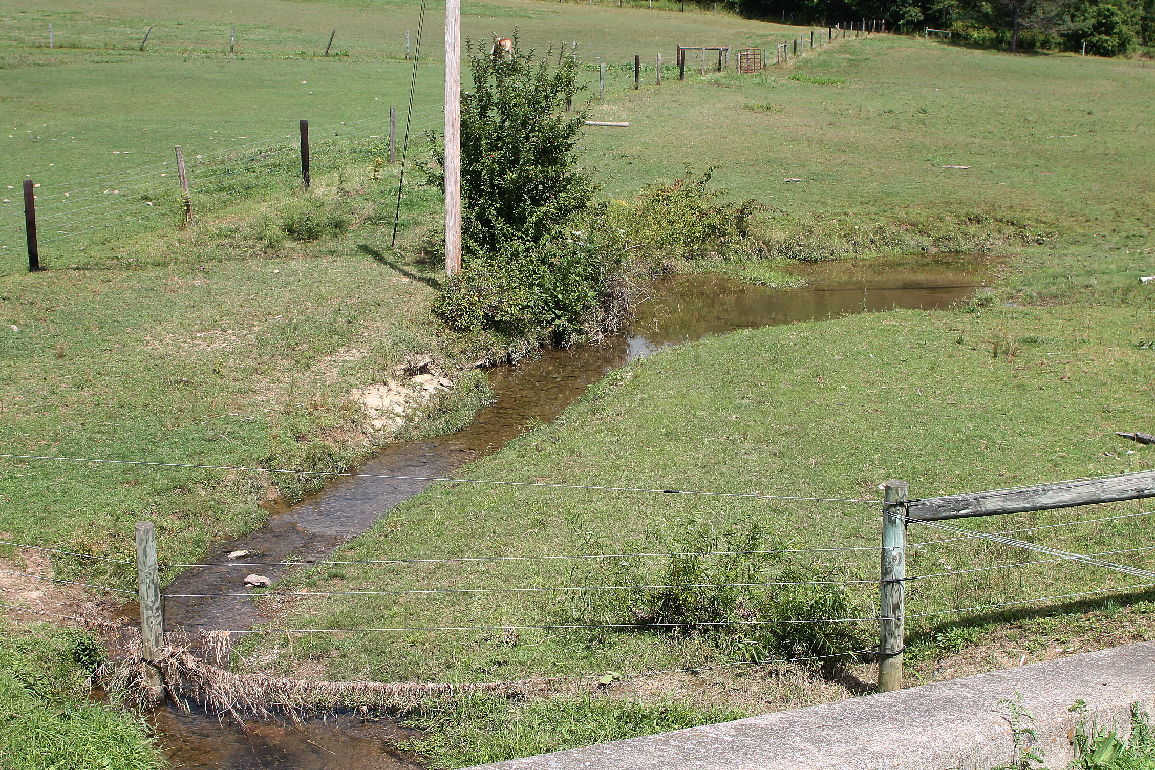 Kashinka Hollow, a tributary of East Branch Briar Creek, looking upstream